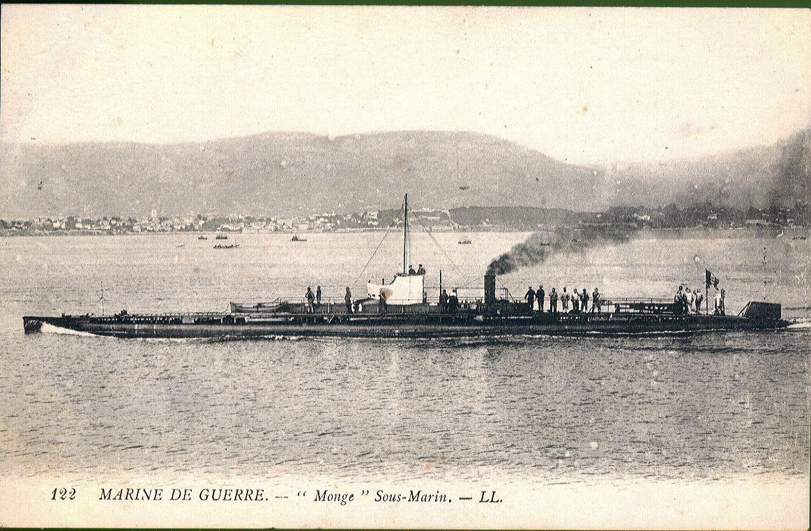 Post card of French submarine Monge sunk in 1915, published in 1918